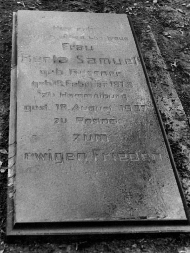 Grave of Berta Samuel, née Geßner, born in Hammelburg on 12 February 1878, died in Rostock on 18 August 1937 in the Old Jewish Cemetery in Rostock